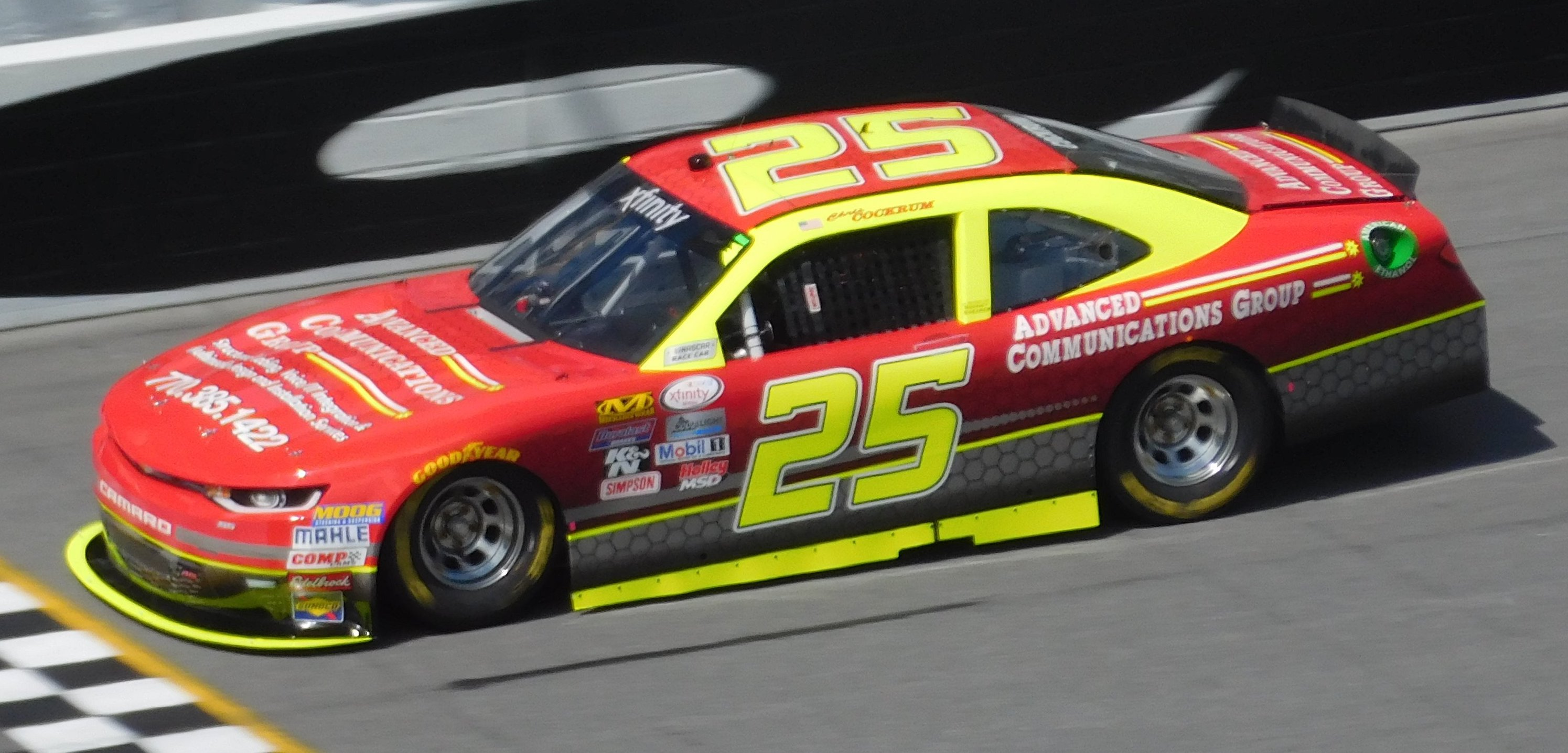 Chris Cockrum's No. 25 Advanced Communications Group Chevrolet at Daytona International Speedway in 2017